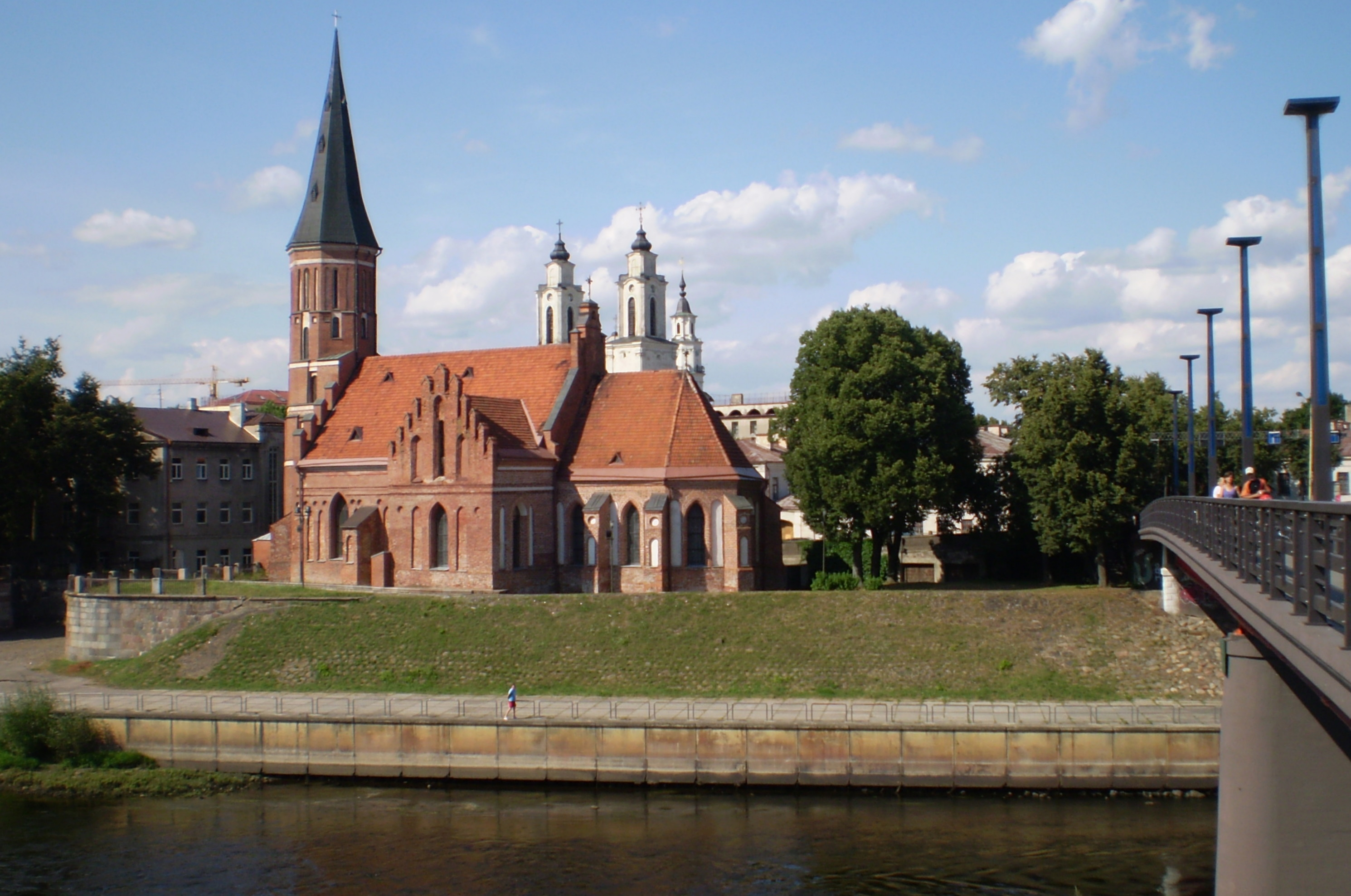 Virgin Mary church in Kaunas, Lithuania.